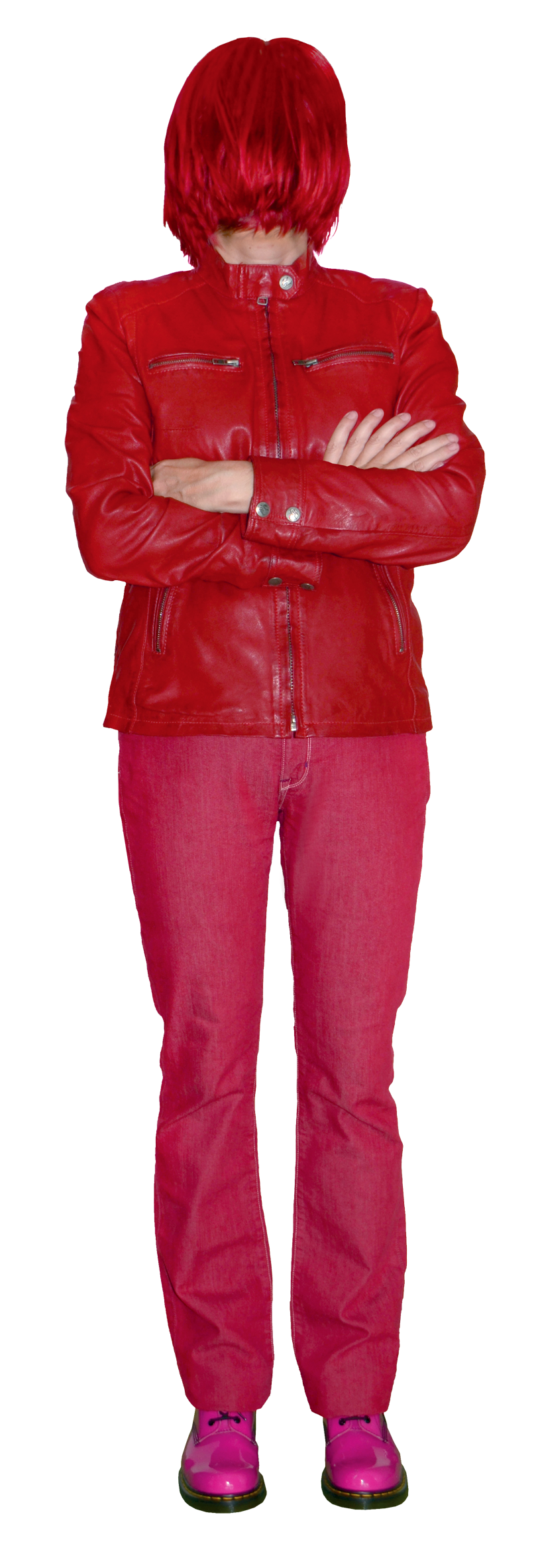 Picture of artist and painter Airco Caravan (Amsterdam / New York)